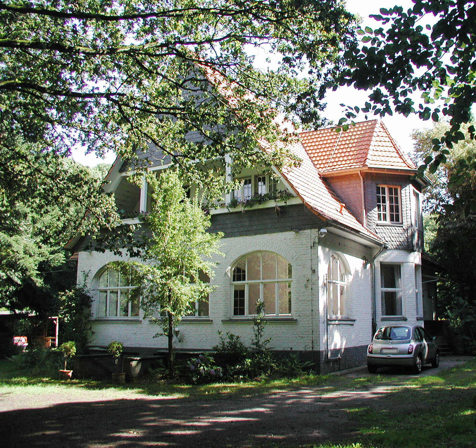 Cologne, forester's lodge (1912)